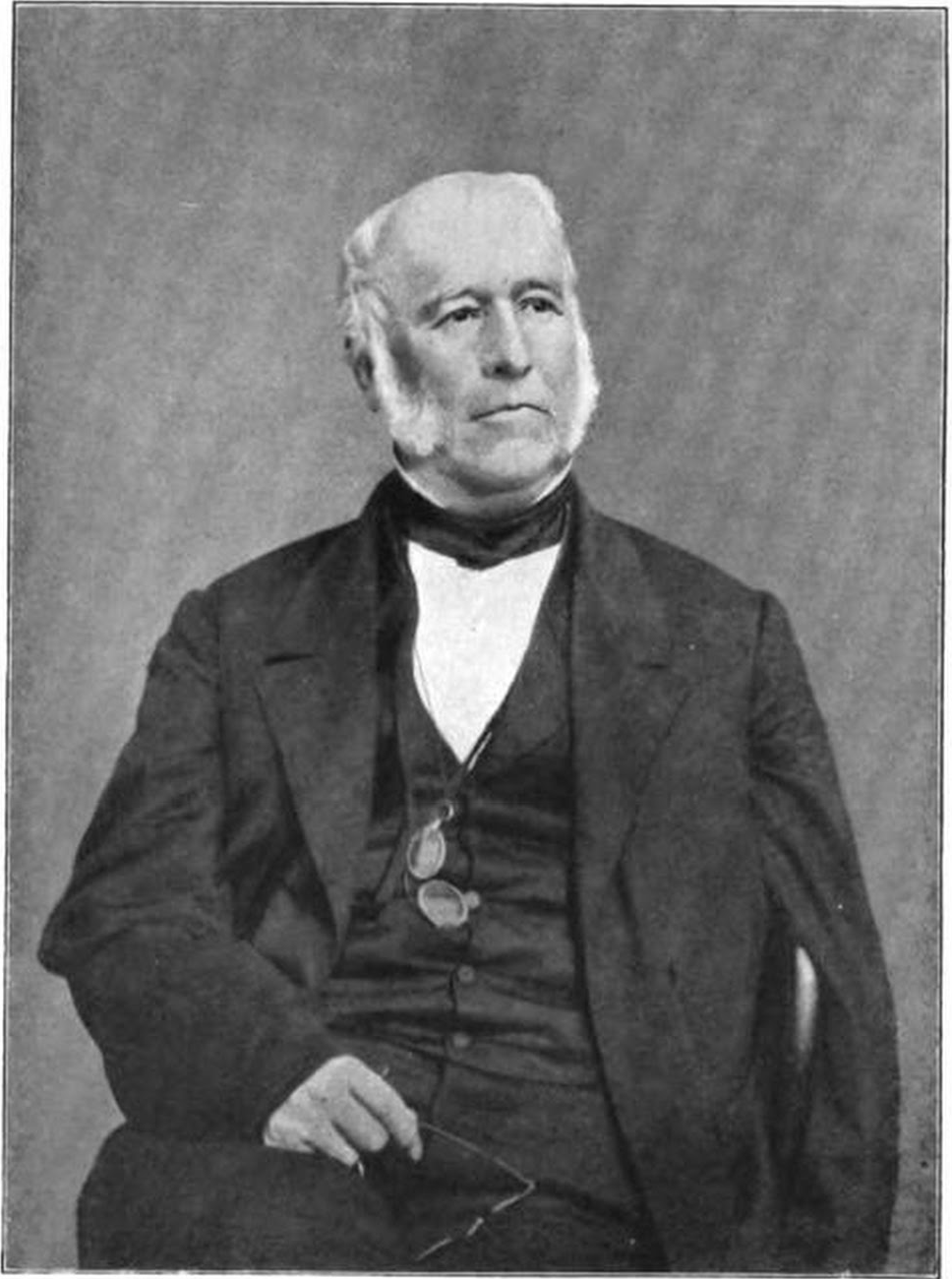 Photograph of Philip Hamilton, known as "Little Phil," the youngest son of Alexander Hamilton, at age 78.